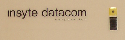 Insyte Datacom business card